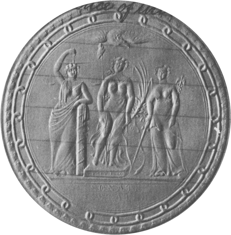 An impression made by the 1831 Seal of the United States Senate, probably early in its era because several features which later became worn are still somewhat discernable.